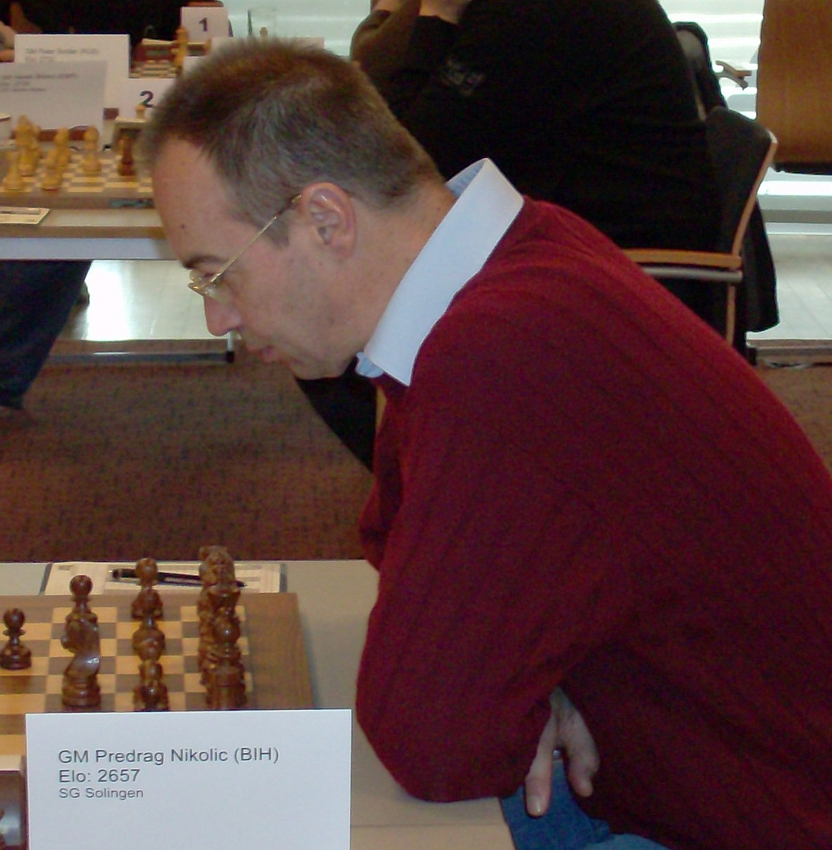 Predrag Nikolic, chess grandmaster